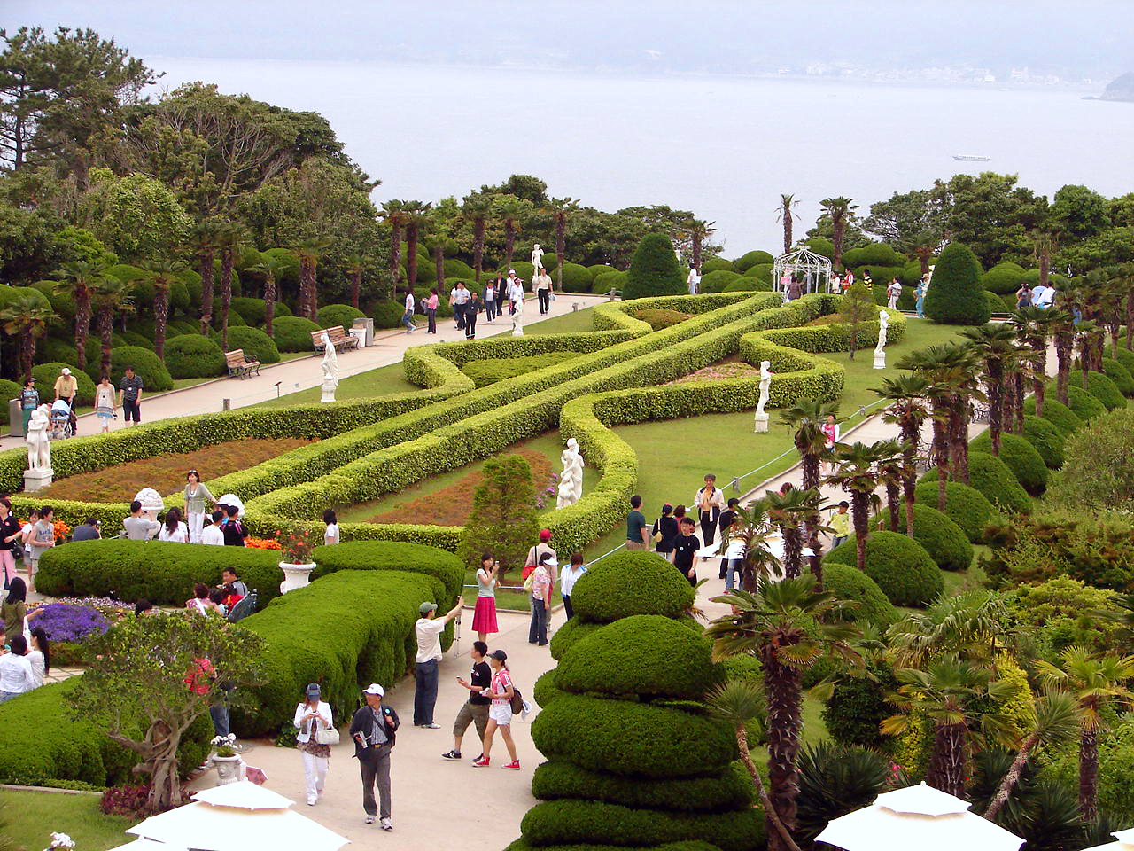 Oedo is a western-style island botanical garden built 1969 by Lee Chang-ho and his wife, in Hallyeo Haesang National Park (national marine park), in what is part of Geoje city, Gyeongsangnam-do, South Korea. The island is home to more than 3,000 plant species, many quite rare, like Agave Americana, Rose of Sunshine, Windmill Palms, C.peruvianus (a kind of cactus), and includes many other subtropical plants, like cactus, palm trees, gazania, eucalyptus, bottlebrush bush, New Zealand flax, and agave. Oedo has a coastal climate with mild subtropical weather.